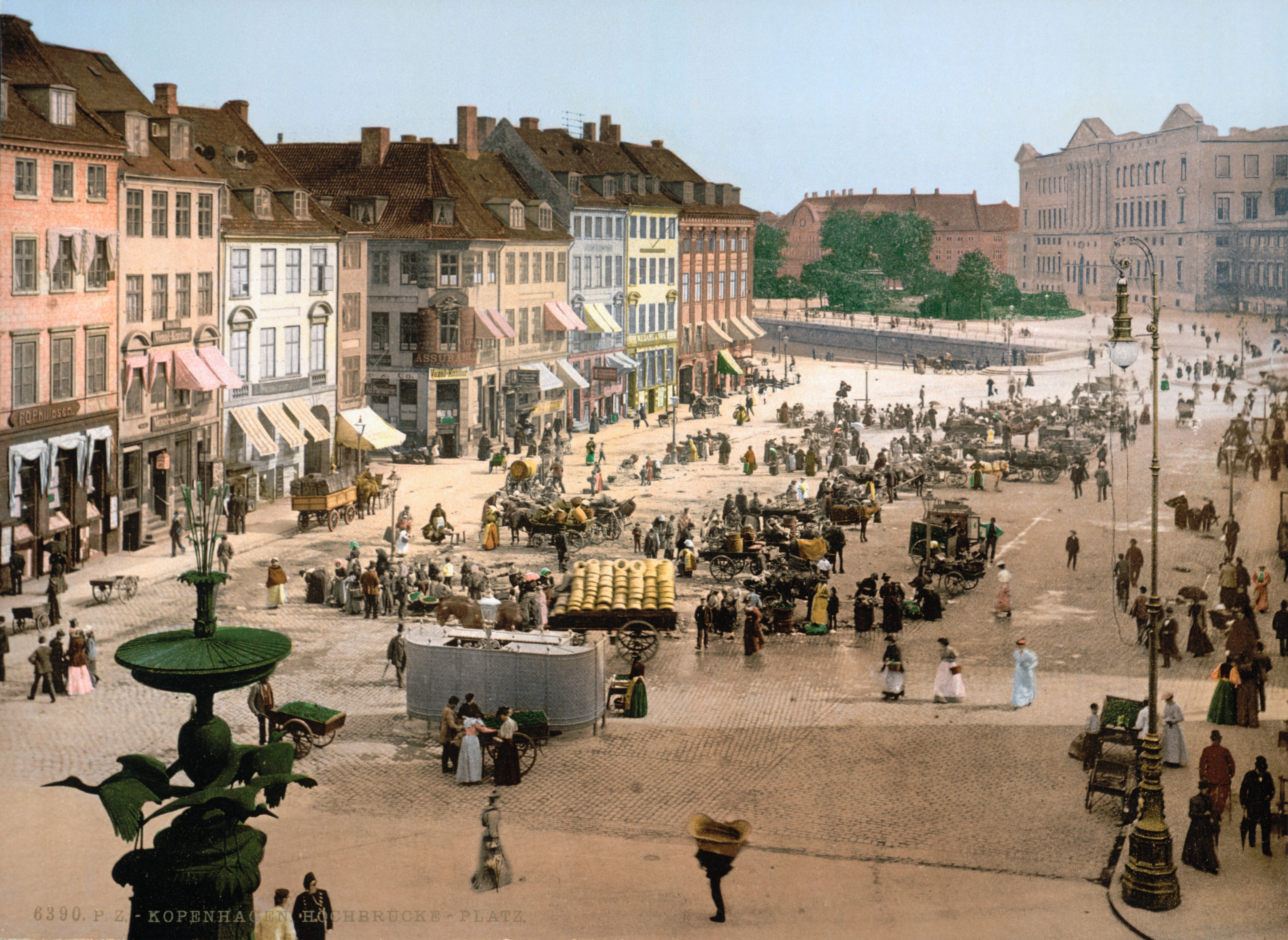 Hochbrucke Square, Copenhagen, Denmark, between ca. 1890 and ca. 1900. da: Højbro Plads i København mellem 1890 og 1900; bemærk ruinen af det andet Christiansborg i baggrunden. 1 photomechanical print : photochrom, color. Notes: Title from the Detroit Publishing Co., catalogue J, foreign section. Detroit, Mich. : Detroit Publishing Company, c1905. Print no. 6390. Forms part of: Views of architecture and other sites in Copenhagen, Denmark in the Photochrom print collection. Subjects: Denmark--Copenhagen. Format: Photochrom prints--Color--1890-1900. Repository: Library of Congress, Prints and Photographs Division, Washington, D.C. 20540 USA, Part Of: Views of architecture and other sites in Copenhagen, Denmark (DLC) 2001697980 More information about the Photochrom Print Collection is available at Persistent URL: Call Number: LOT 13421, no. 011 [item]